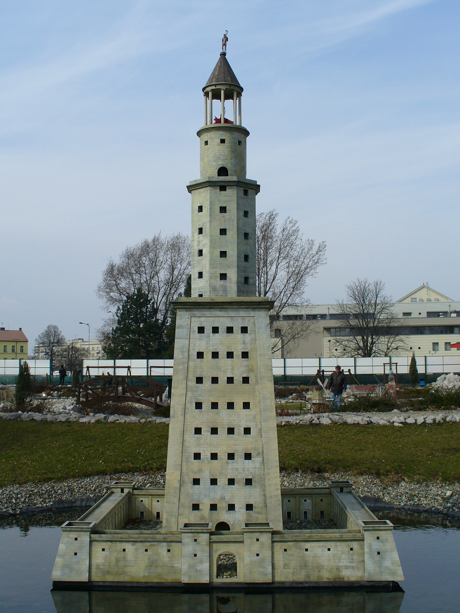 Replica of Lighthouse of Alexandria in Miniature Park "Miniuni" in Ostrava